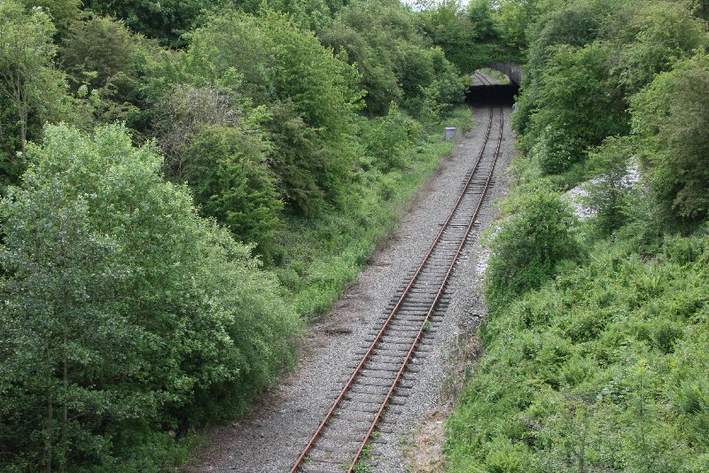 Halton Curve, nearer Runcorn end.